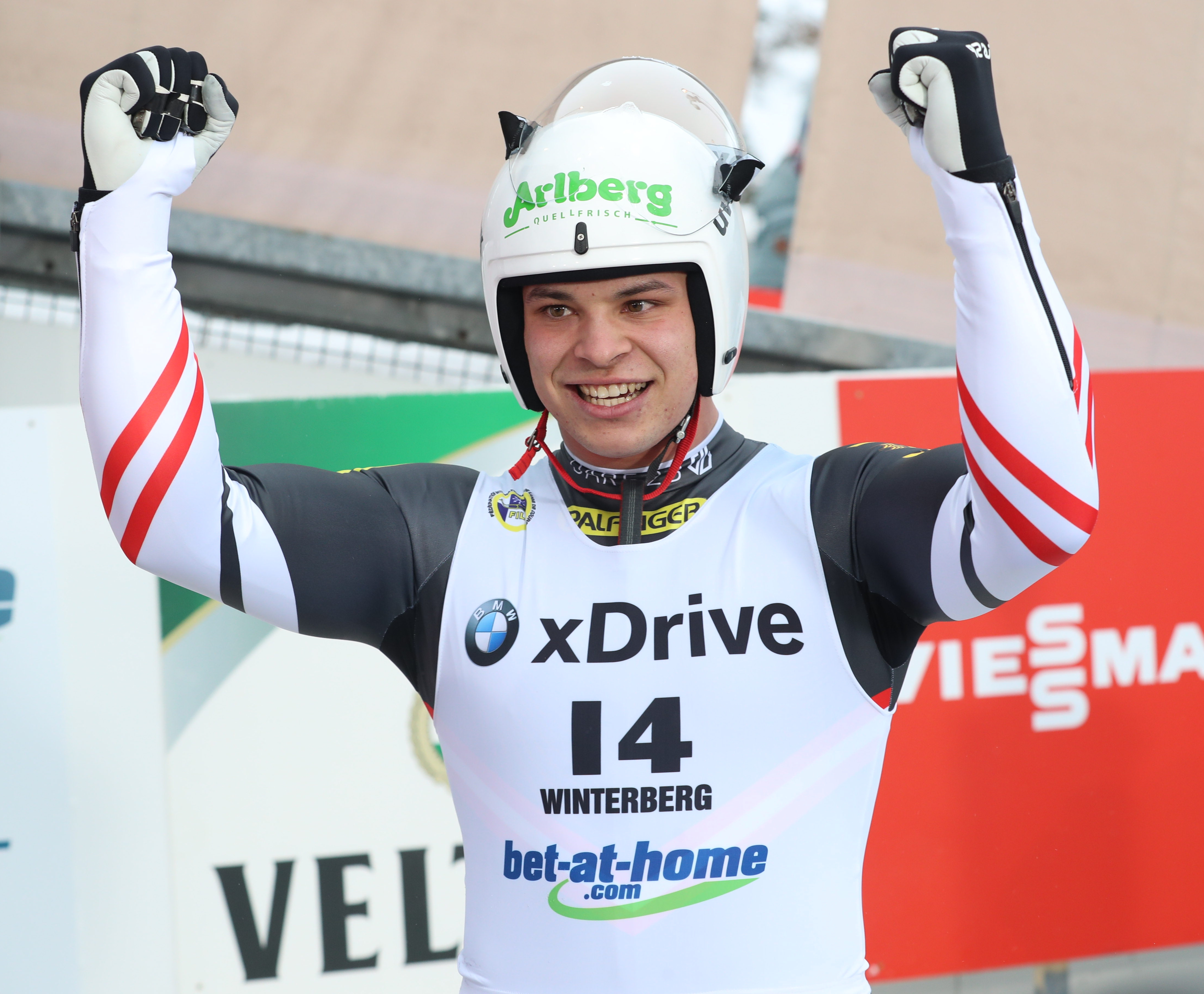 Men's Sprint World Championships at the FIL World Luge Championships 2019 in Winterberg